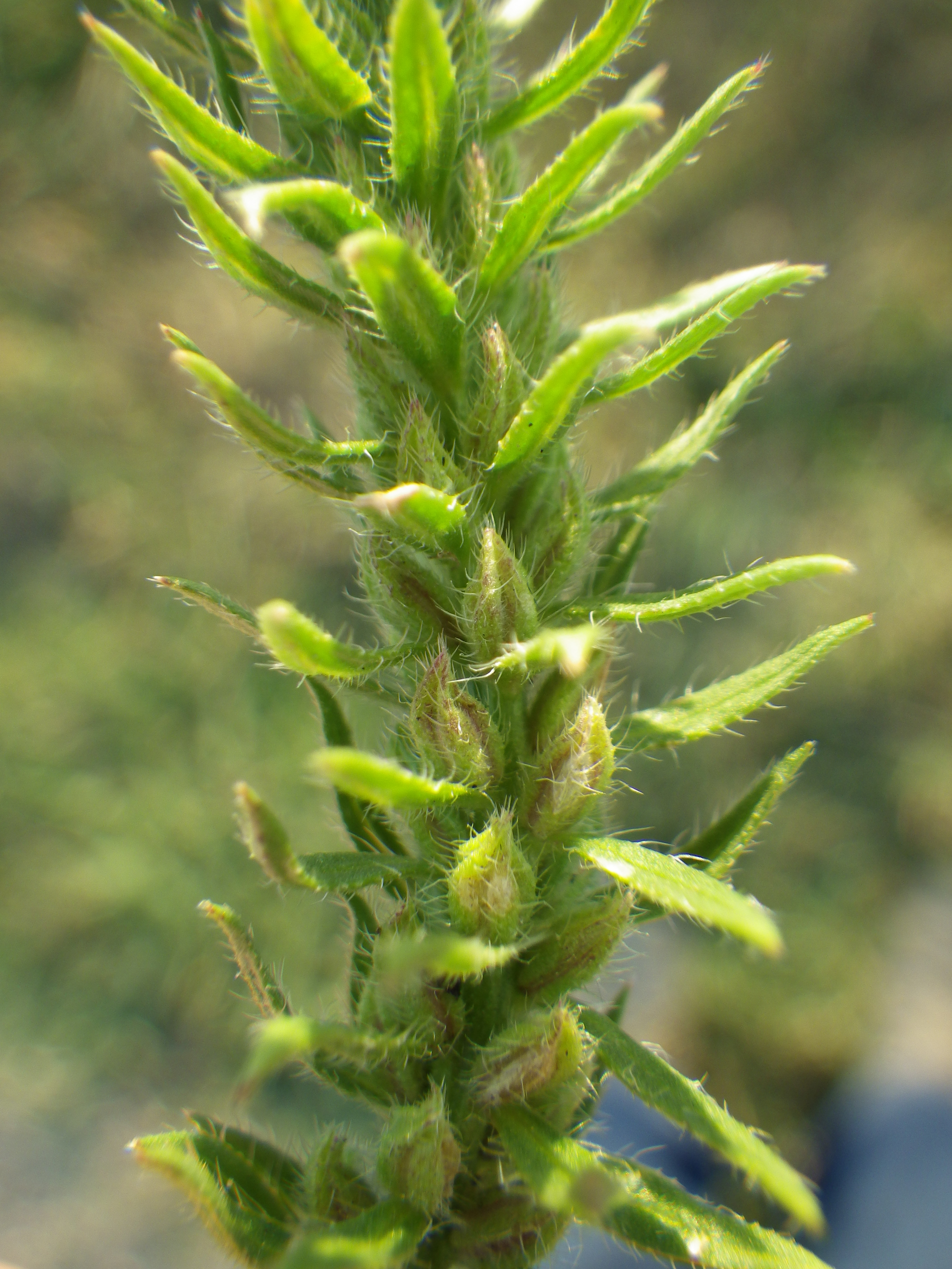 The solitary flower in the axil of each linear inflorescence bract persists and ultimately splits between the calyx lobes revealing the 4 "long" nutlets inside.